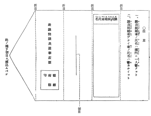 A part of "the 31st Regulation of nterior Ministry in 1945". 昭和20年内務省令第31号に附属する投票様式ノ一